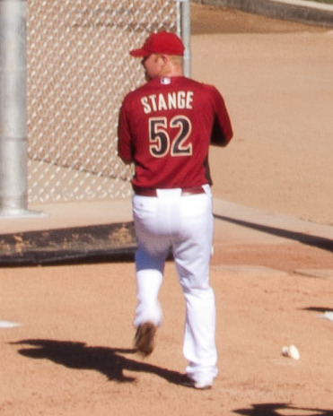 Arizona Diamondbacks pitchers Daniel Stange, J. J. Putz, Kevin Mulvey, Daniel Hudson and Sam Demel throw bullpen sessions during spring training in February 2011.